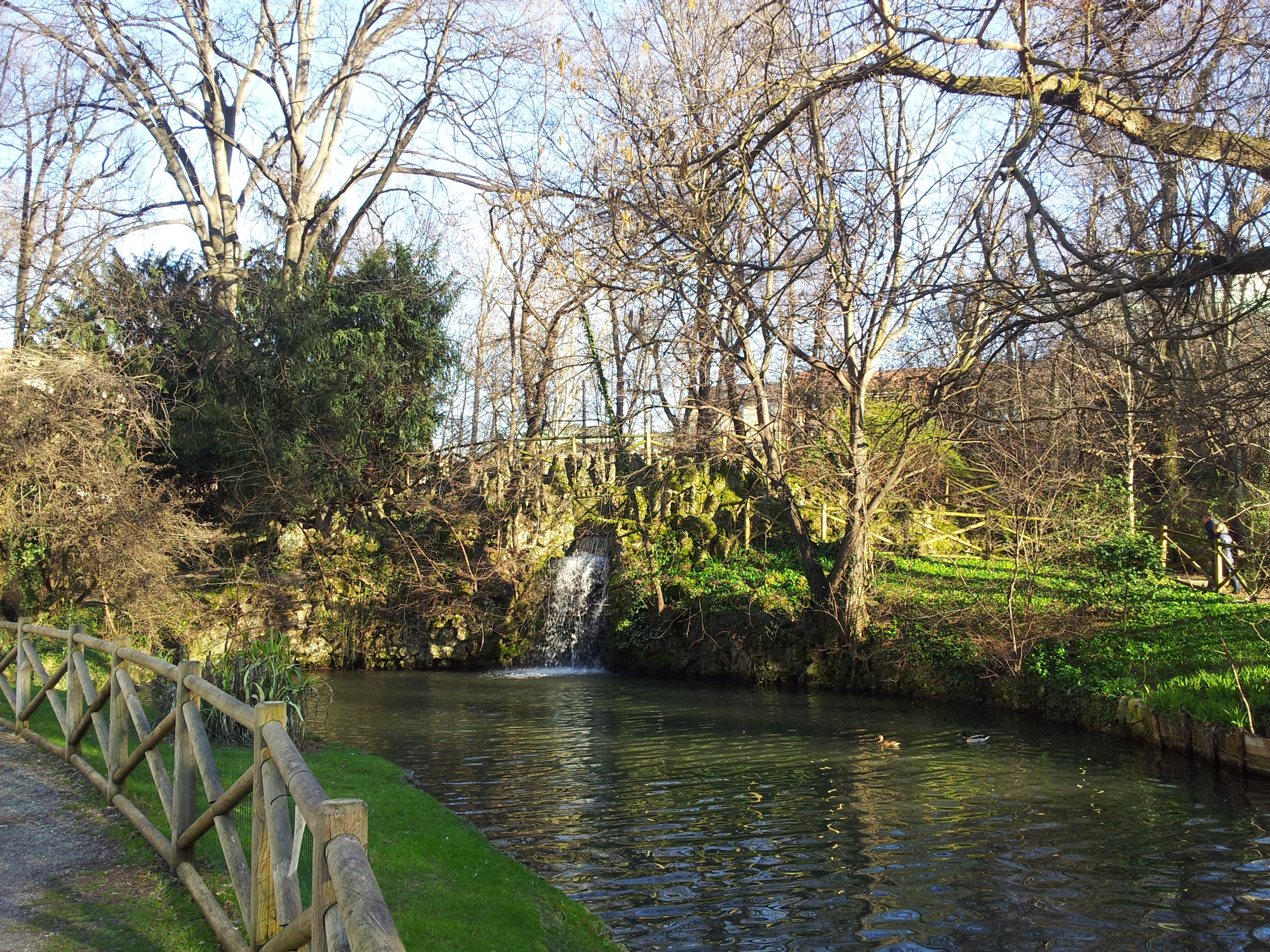 Garden of Royal Villa of Milan